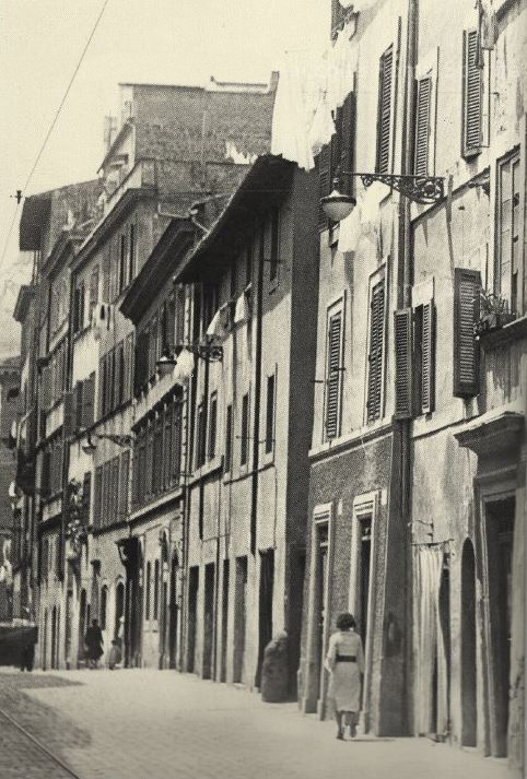 The road of Borgo Vecchio in Rome, 1930 ca. This picture shows part of the north side of the road. The building in background at the far left is the Palazzo dei Convertendi